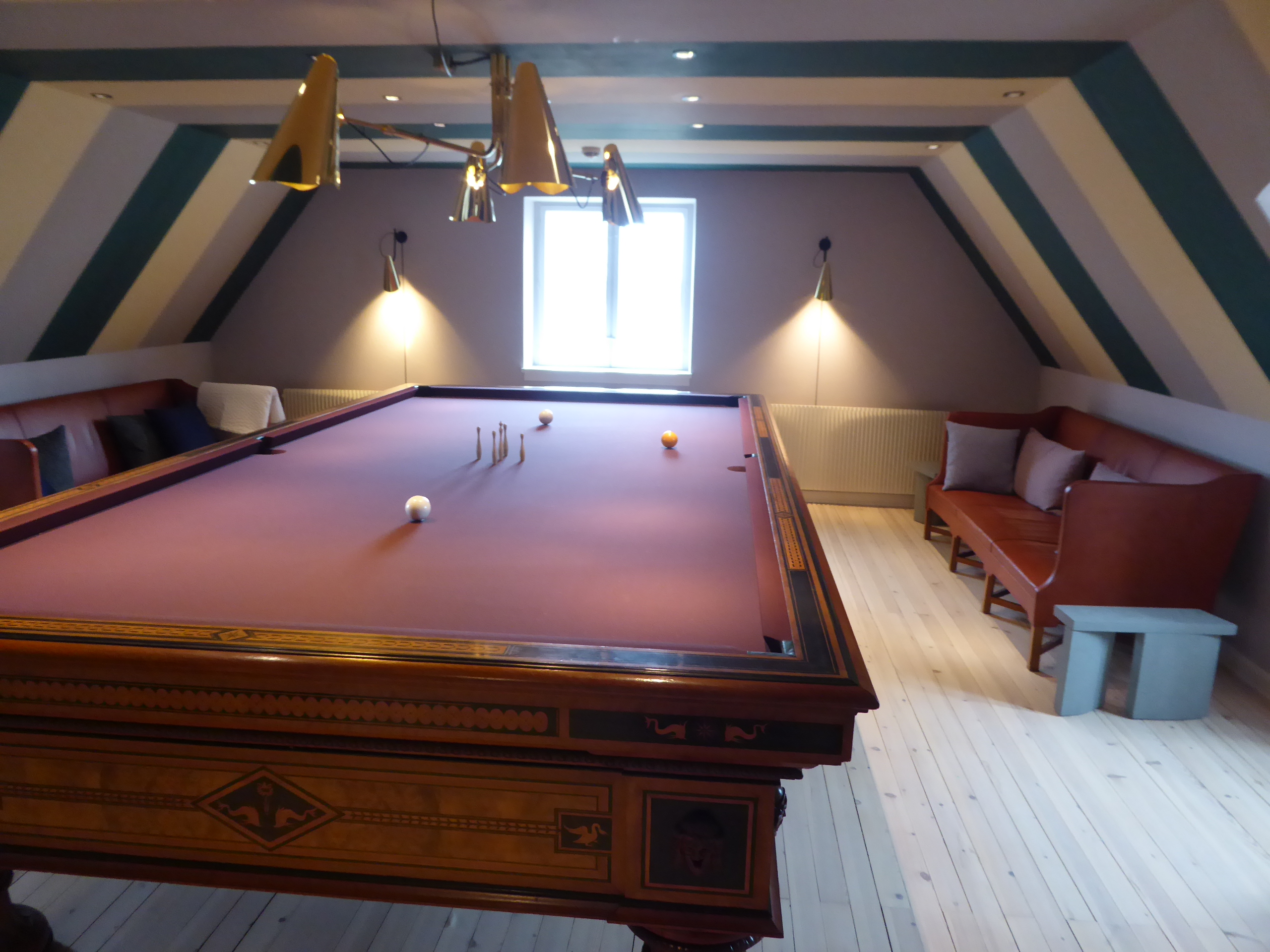 The mansion Marienborg of Copenhagen which is used as residence for the Danish prime minister and for representative purposes. It is usually closed for the public but after a renovation it was possible to take part in a conducted tour during a weekend. Billiard room on the second floor. When Crown prince Frederik and Prince Joachim came to Marienborg for piano education in the 1980s they liked to play billiard here.